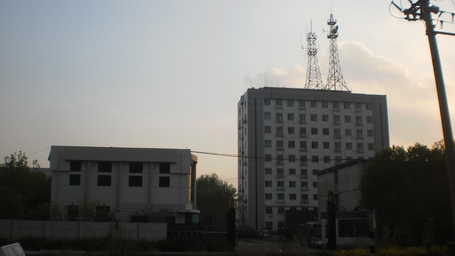 Tanggu Station of the Tianjin Coastal Radio, part of the Tianjin Maritime Administration